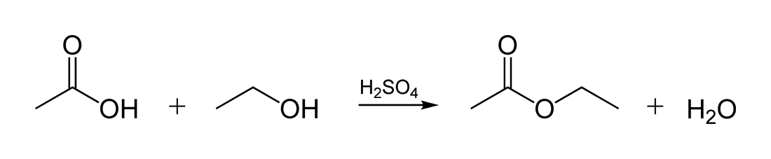 Esterification: acid-catalysed formation of an ester from a carboxylic acid and an alcohol. In this example, sulfuric acid catalyses the reaction of acetic acid and ethanol to form ethyl acetate and water.